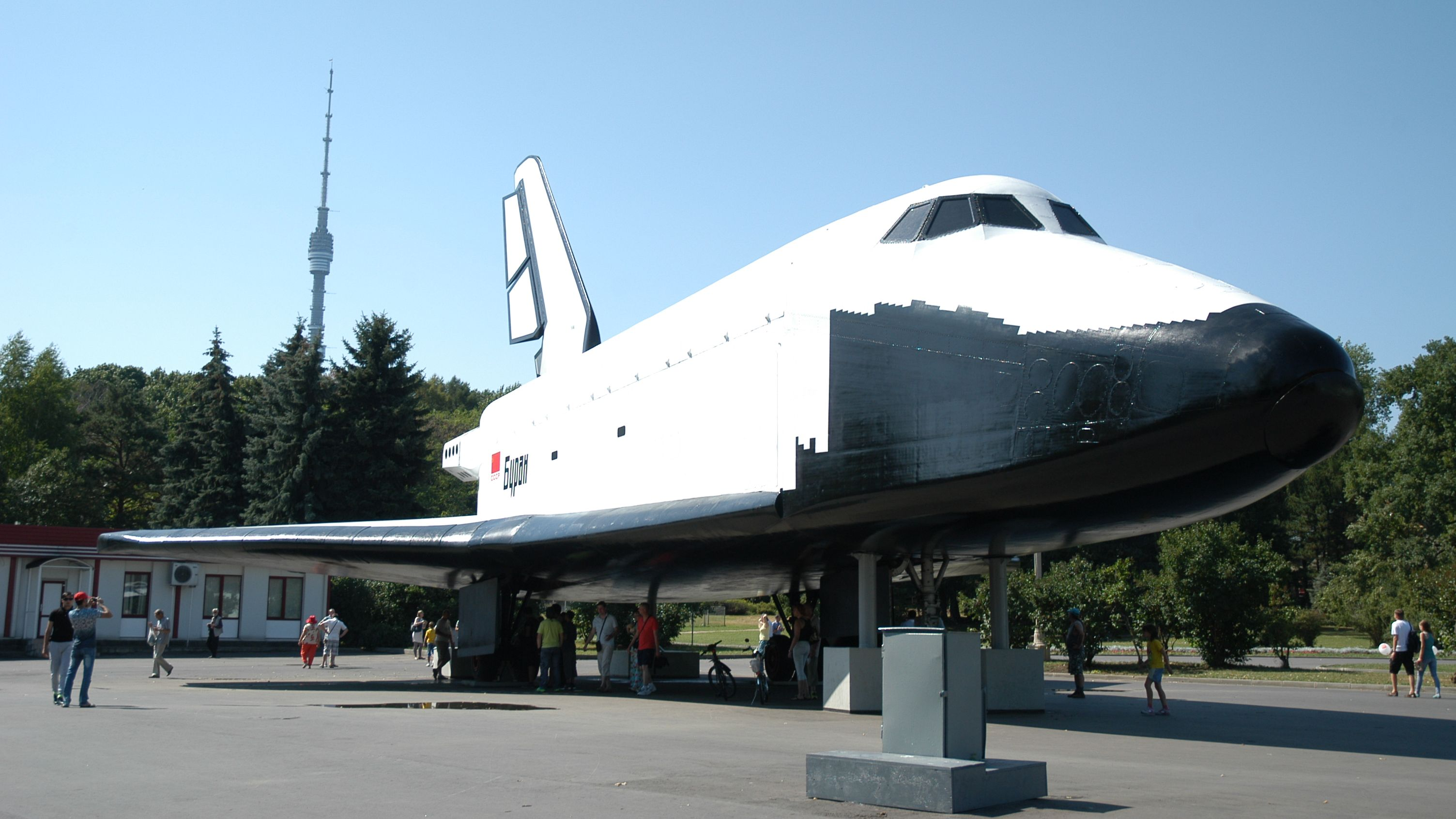 Buran test vehicle OK-TVA in VDNKh exhibition centre in Moscow.